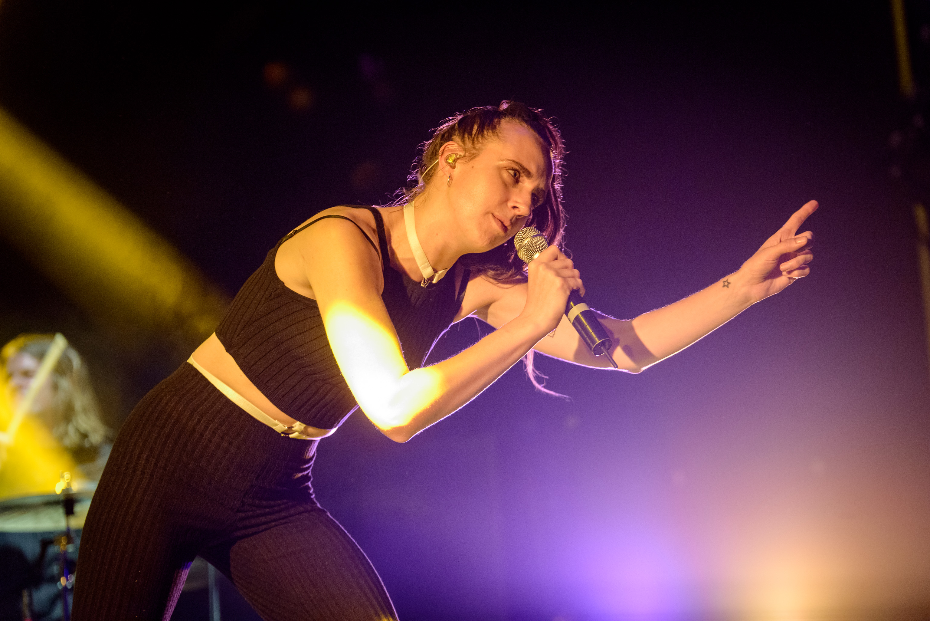 MØ Live @ Utopia Island 2015